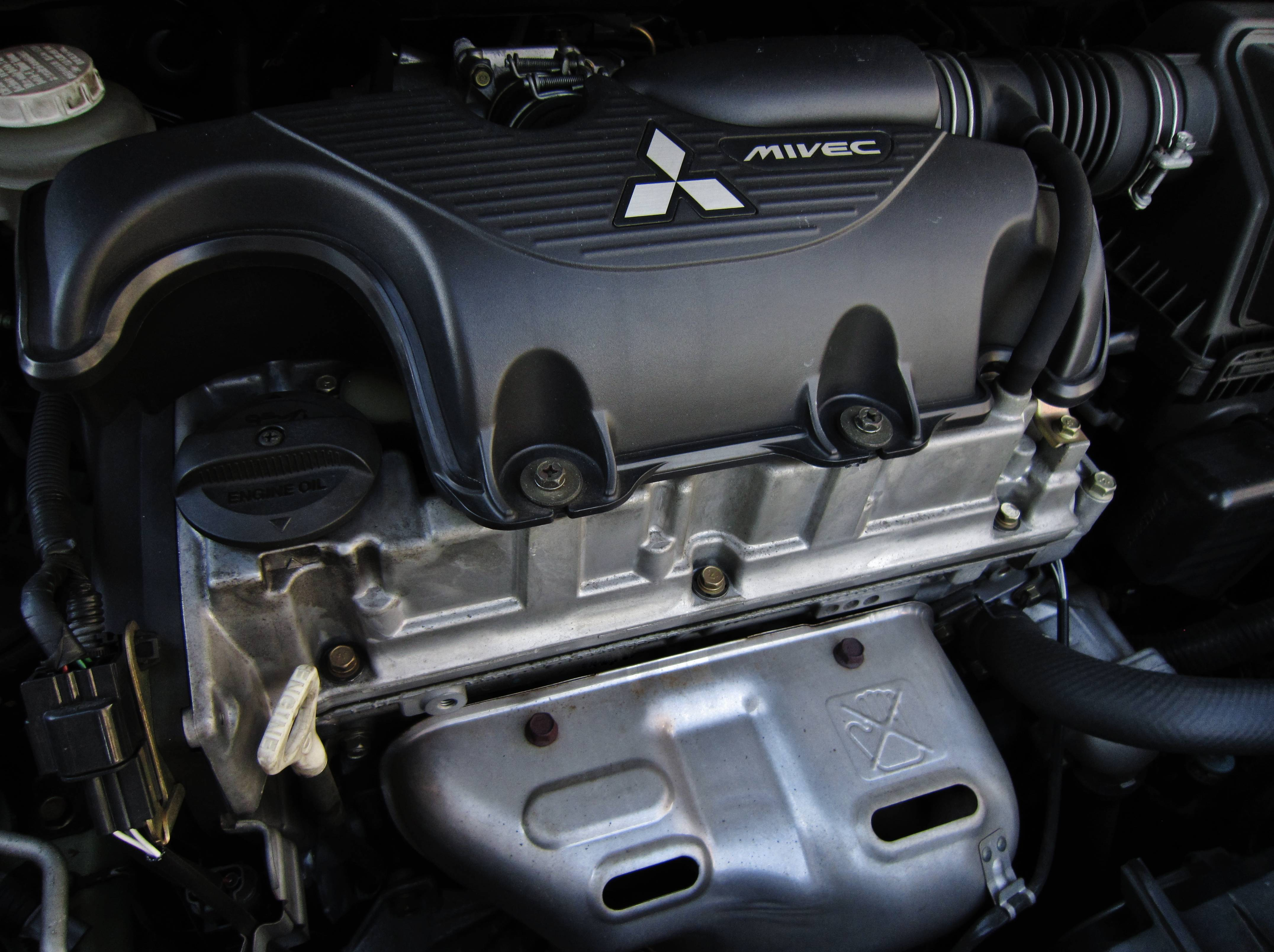 2003 Mitsubishi Colt 4G19 engine.